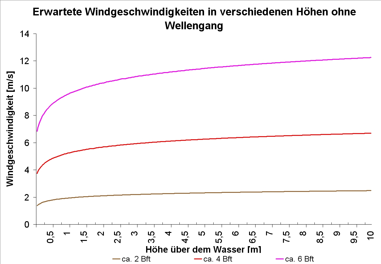 A graphic showing expected windspeeds in different heights over water (without waves). They were calculated according to information at: [1]